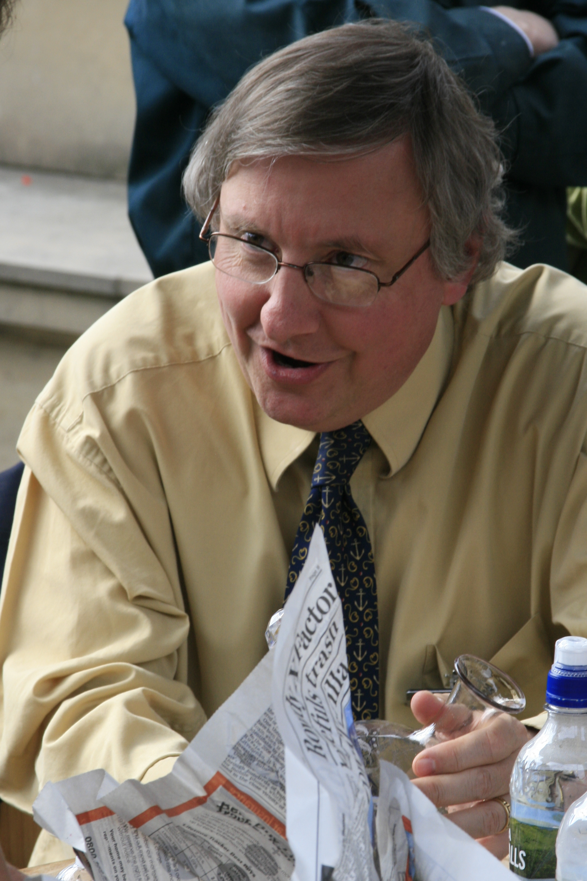 John Sandon inspects some glass